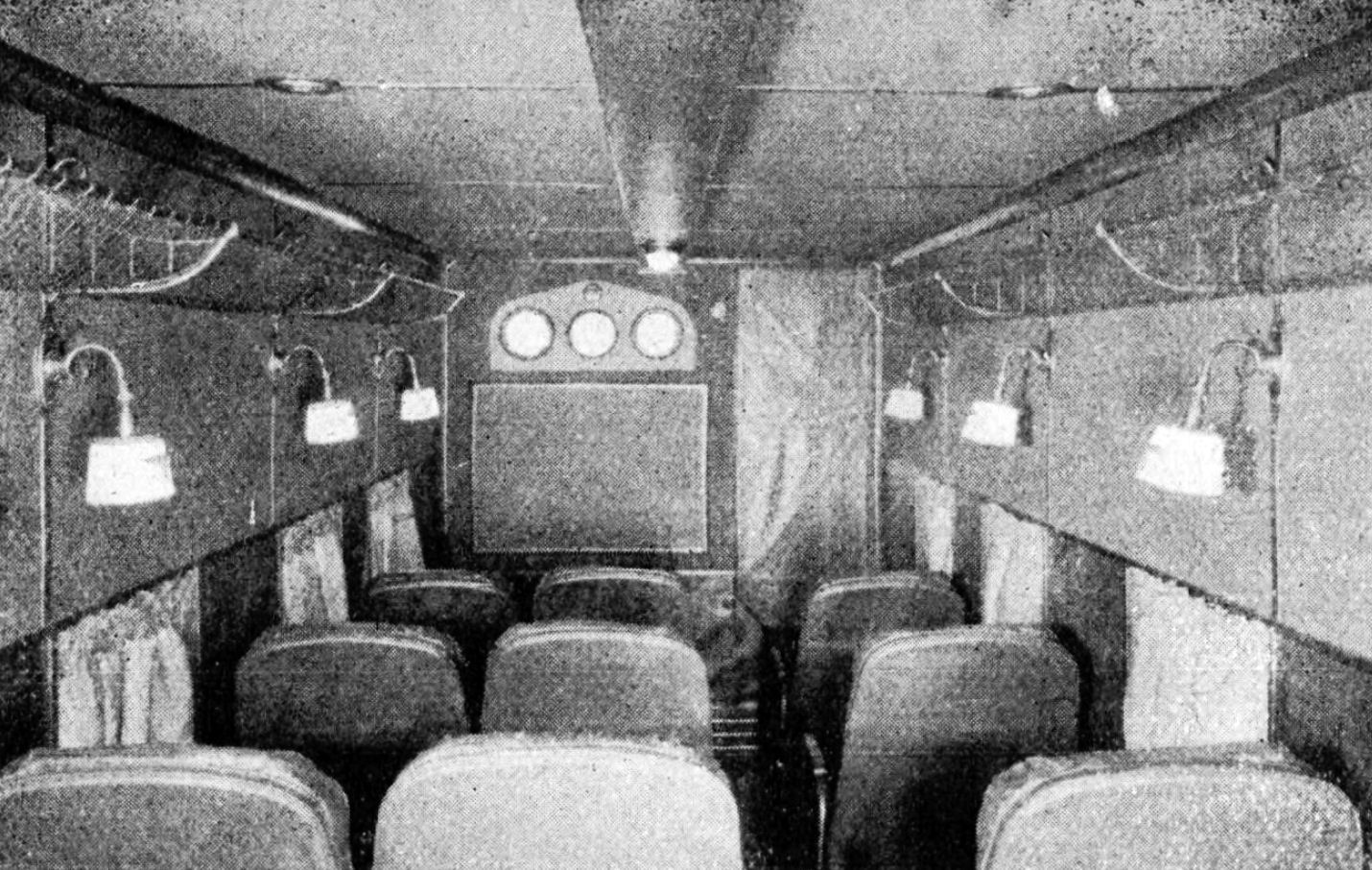 Boeing 80 cabin photo from L'Aéronautique January,1929